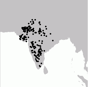 Distribution map of Great Indian Bustard, Ardeotis nigriceps